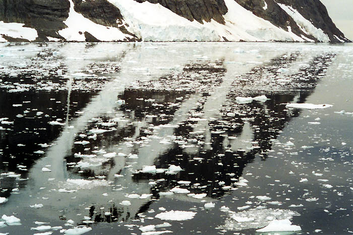 Photo of still waters in the Lemaire Channel, Antarctica.